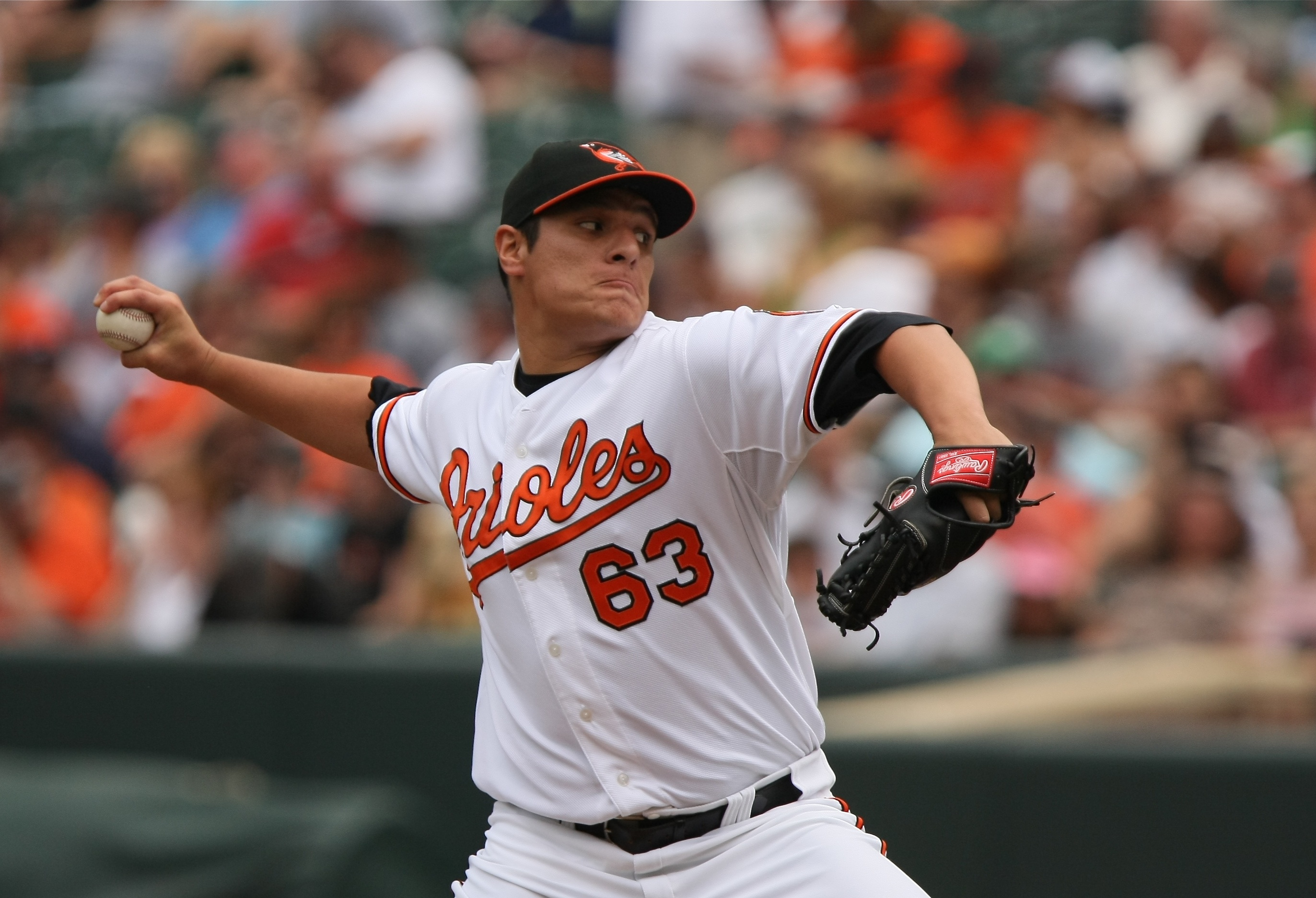 David Hernandez